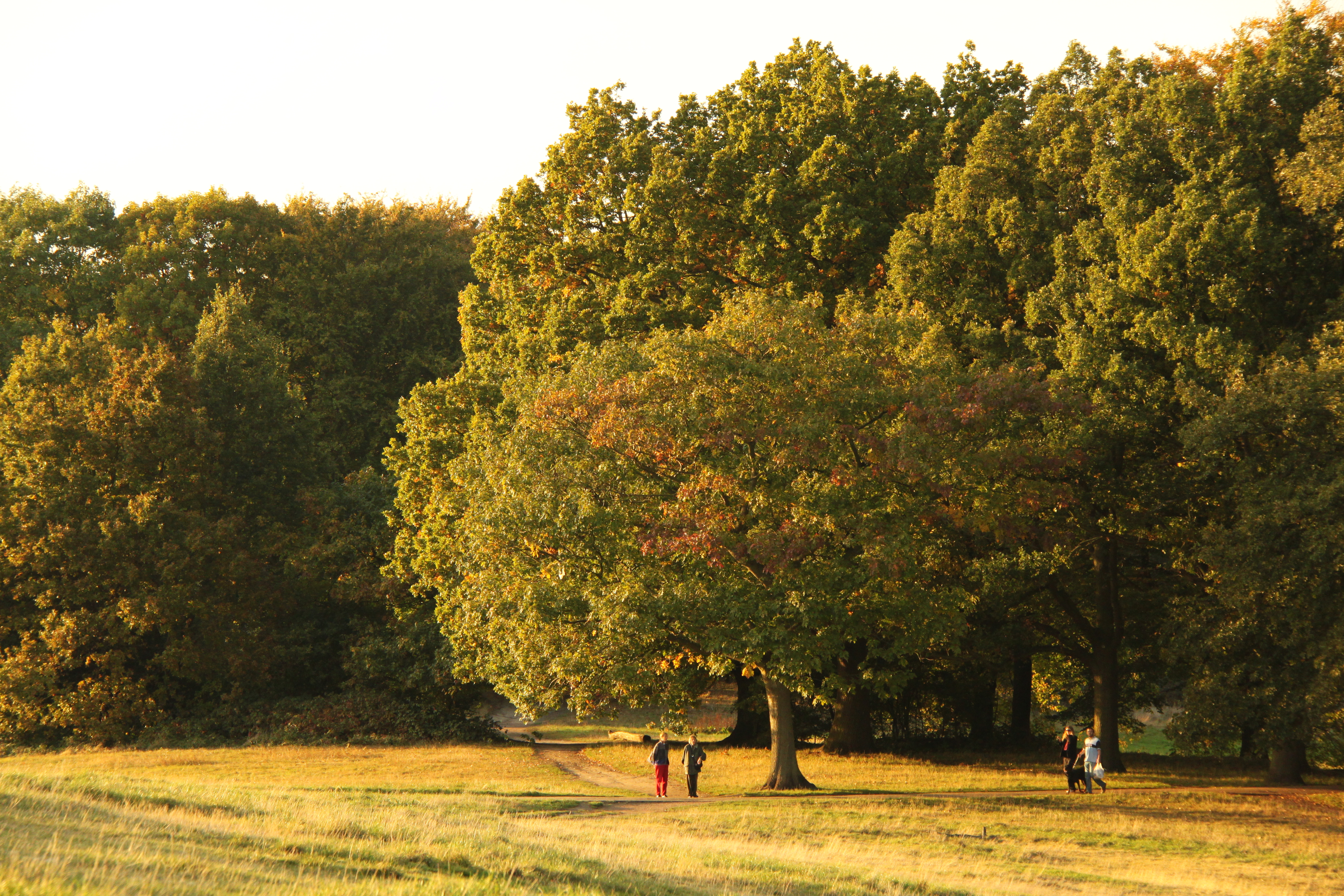 London - October 2009